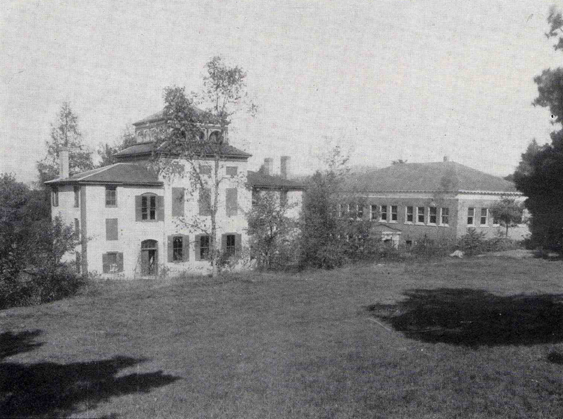 A picture of the Dartmouth Medical School from the early 1900s